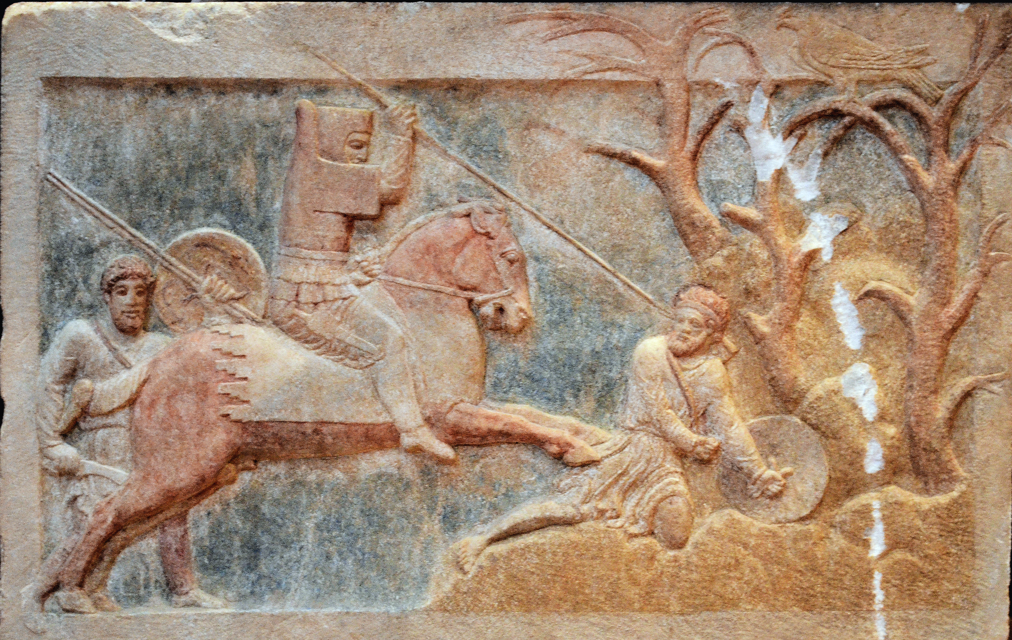 Altıkulaç Sarcophagus Combat scene (detail)